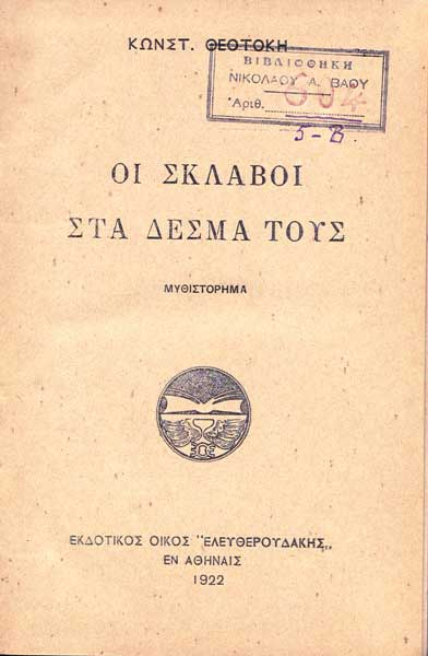 Cover page of Konstantinos Theotokis novel Slaves in Their Chains. 1st edition, Eleftheroudakis, Athens 1922.